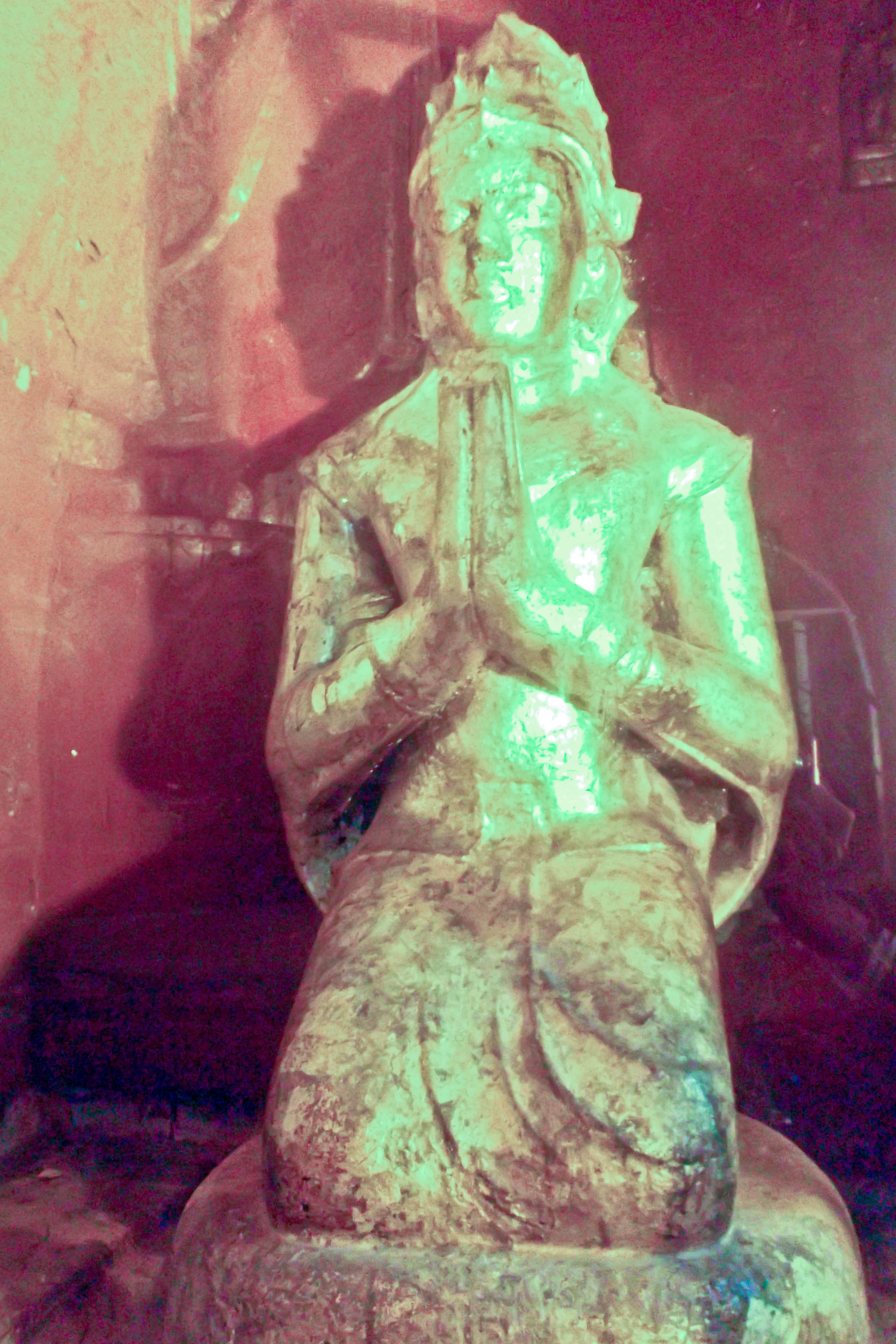 Statue of King Kyan Sit Thar at Ar Nan Dar Pagoda, Bagan. မြန်မာဘာသာ: အာနန္ဒာဘုရားရှိ ကျန်​စစ်​သား​ရုပ်တု